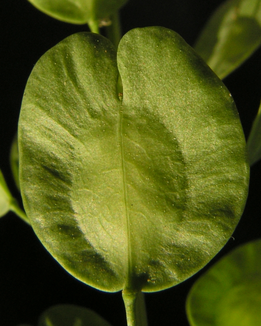 Unripe fruit of Thlaspi arvense. Moscow region, Russia.